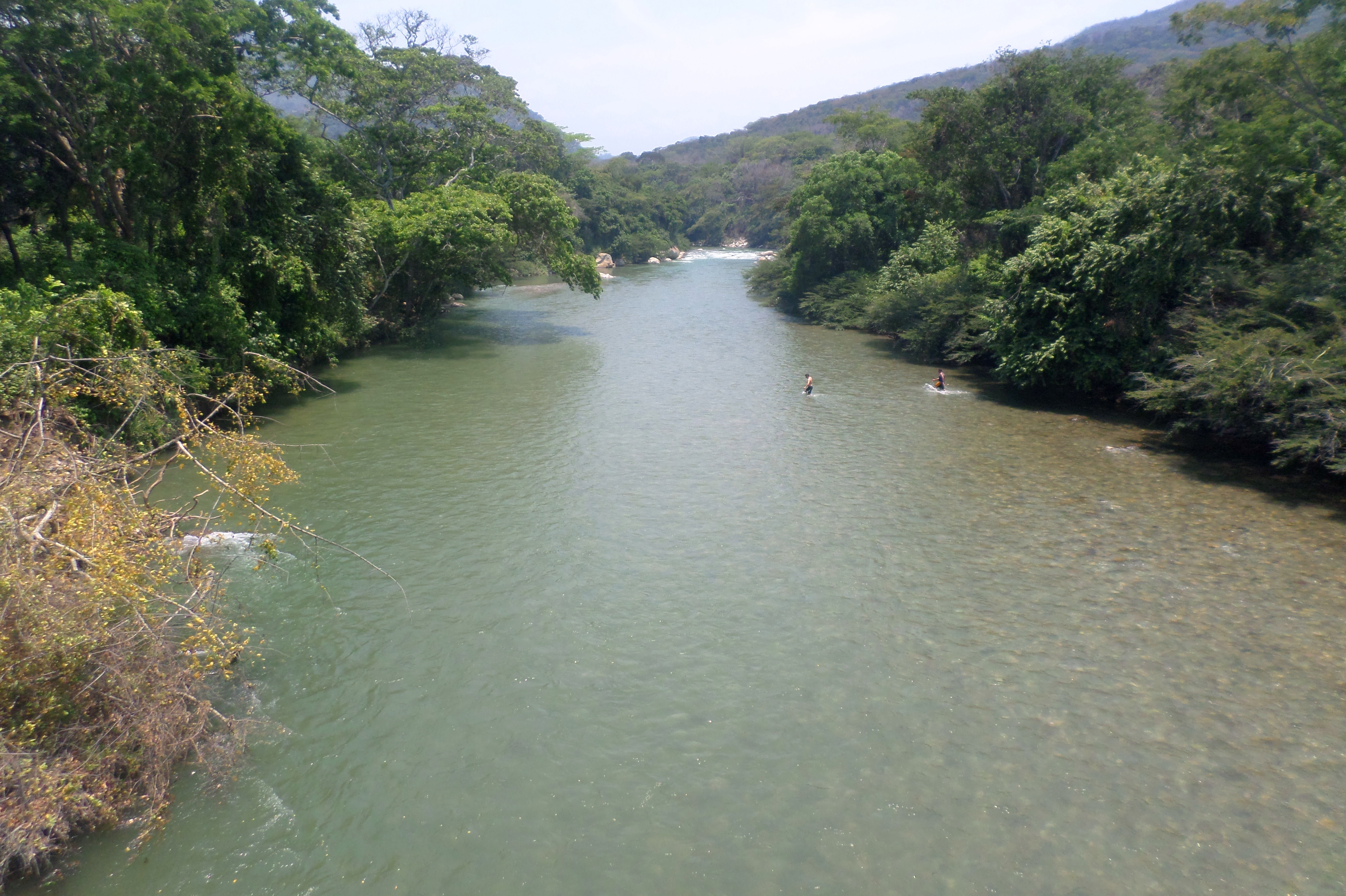 Río Zulia en Duranía NS,al fondo el río durania cayendo en el Zulia